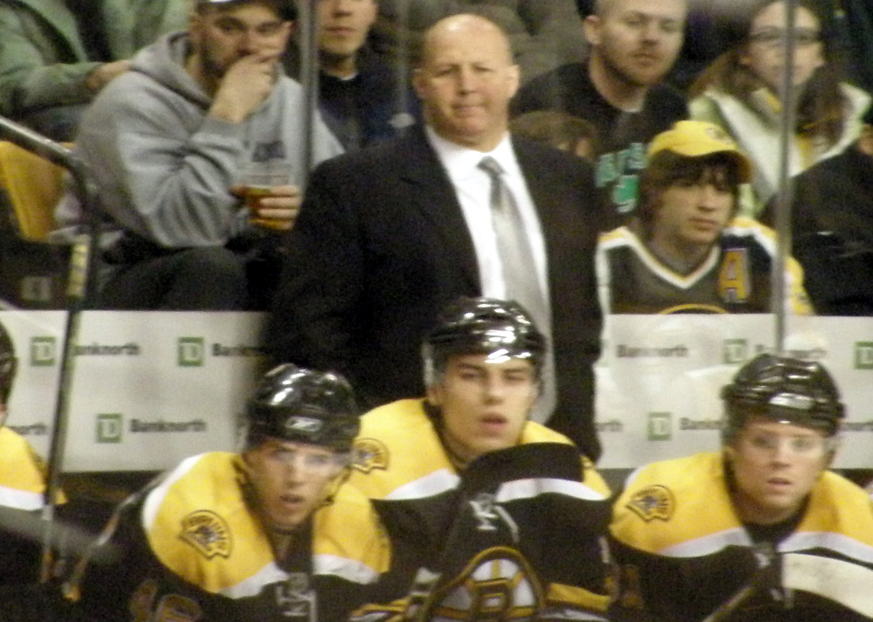 Bruins Coach Claude Julien with David Krejčí, Milan Lucic and Phil Kessel in front of him (from left to right)